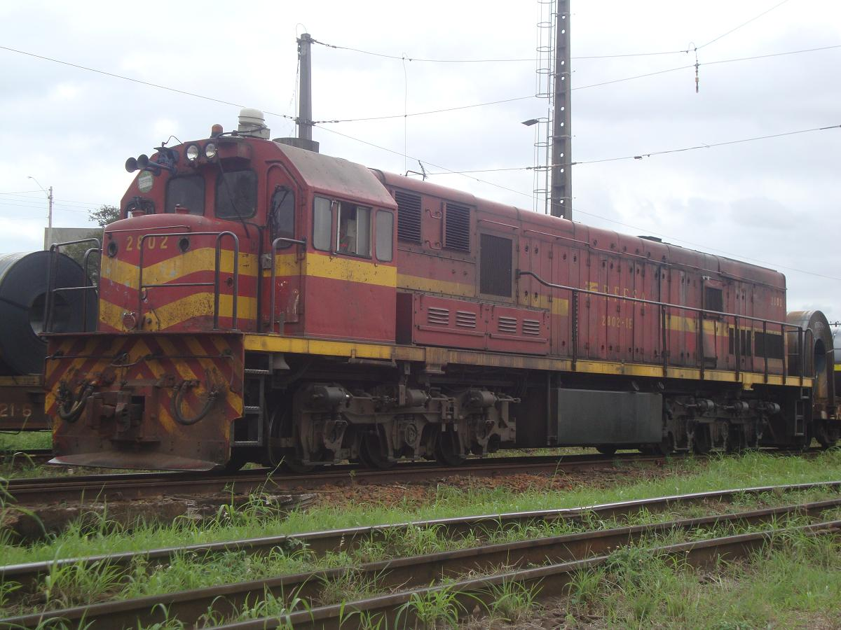 Diesel-Electric Locomotive U22C #2802 (C-C) built by GE Transportation-Brazil / Contagem. This is an locomotive of the Ferrovia Centro-Atlântica. Photo taken in April 2010 at Station Boa Vista (New) Campinas-SP, painting RFFSA.